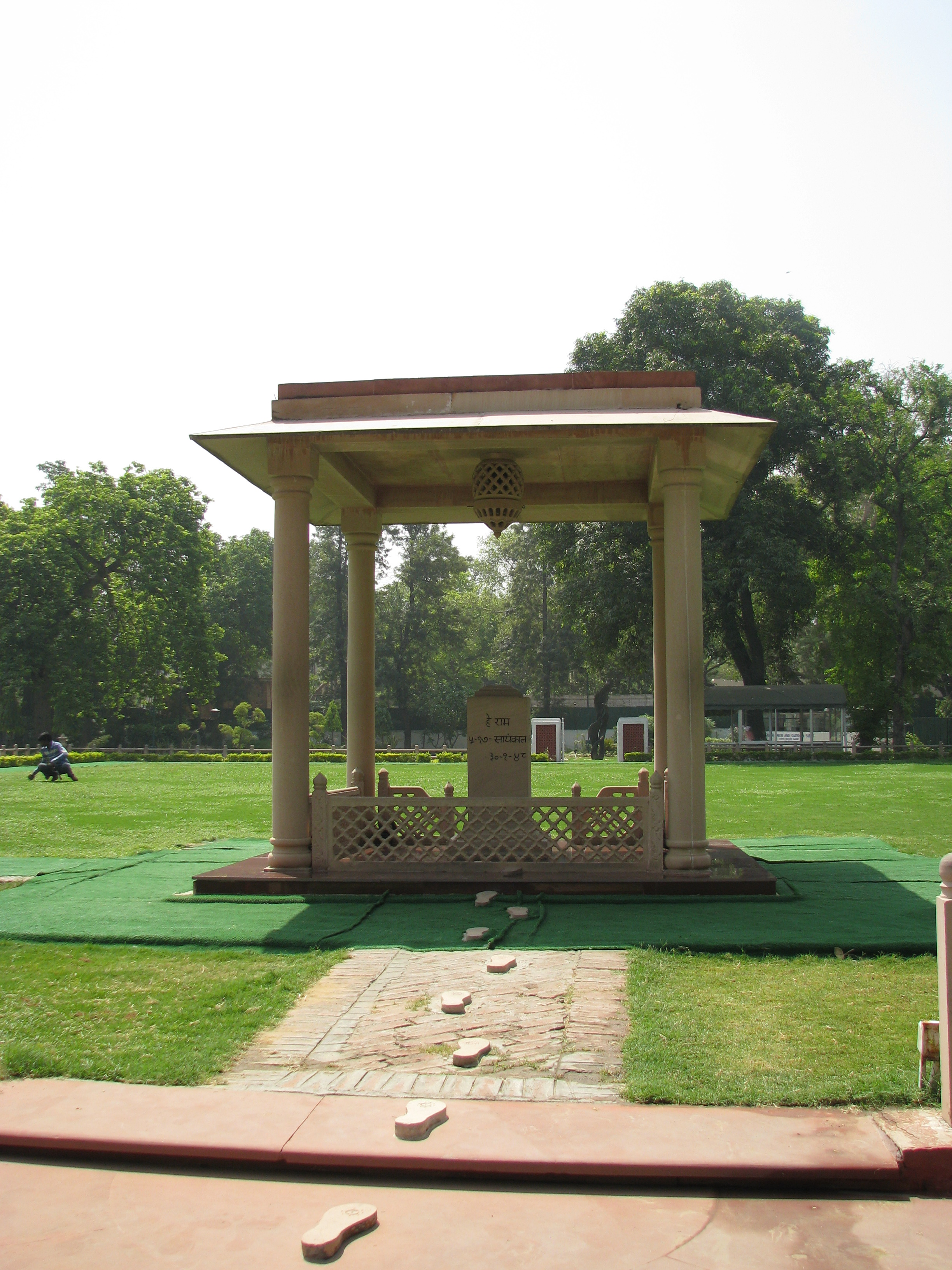 Gandhi Smriti (then Birla House) where Mahatma Gandhi was assassinated in Delhi.